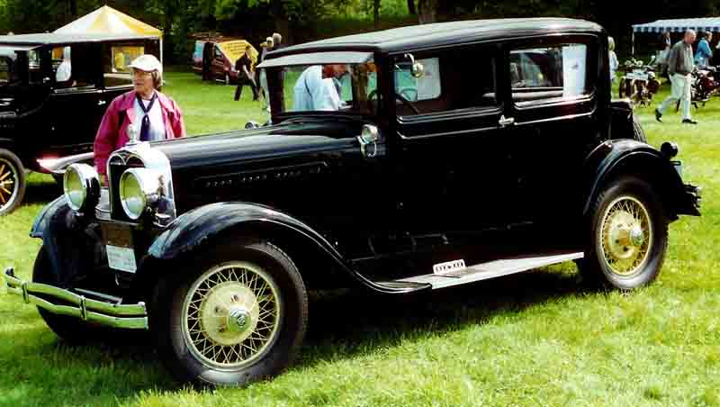 Dodge Victory Six Brougham 1928